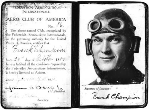 Catalog #: BIOC00175 Last Name: Champion First Name: Frank Notes: Bleriot aircraft Bleriot aircraft Repository: San Diego Air and Space Museum Archive